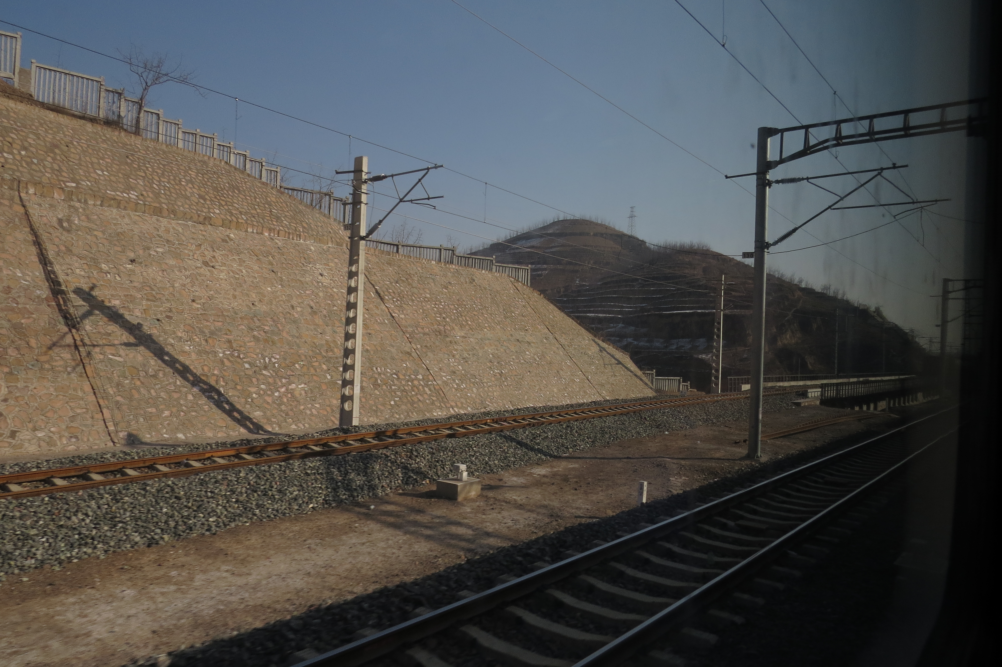 Z70 doesn't stop here.